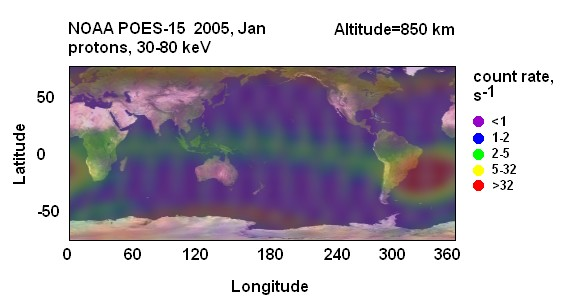 Proton radiation of energy 30keV-80keV in 850km height.